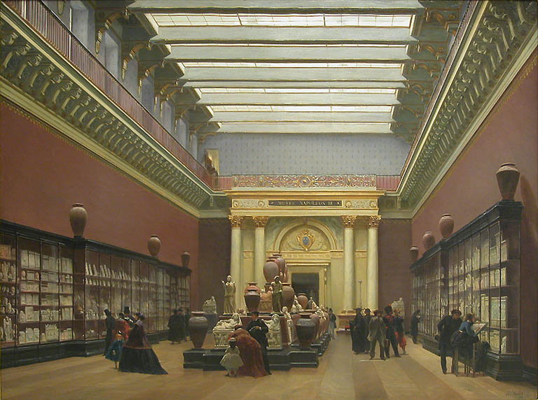 Terracotta room of the Musée Napoléon II in the Louvre - Before the Great Sphinx (Paris, France). Salon of 1866. Charles Giraud (1819-1892).